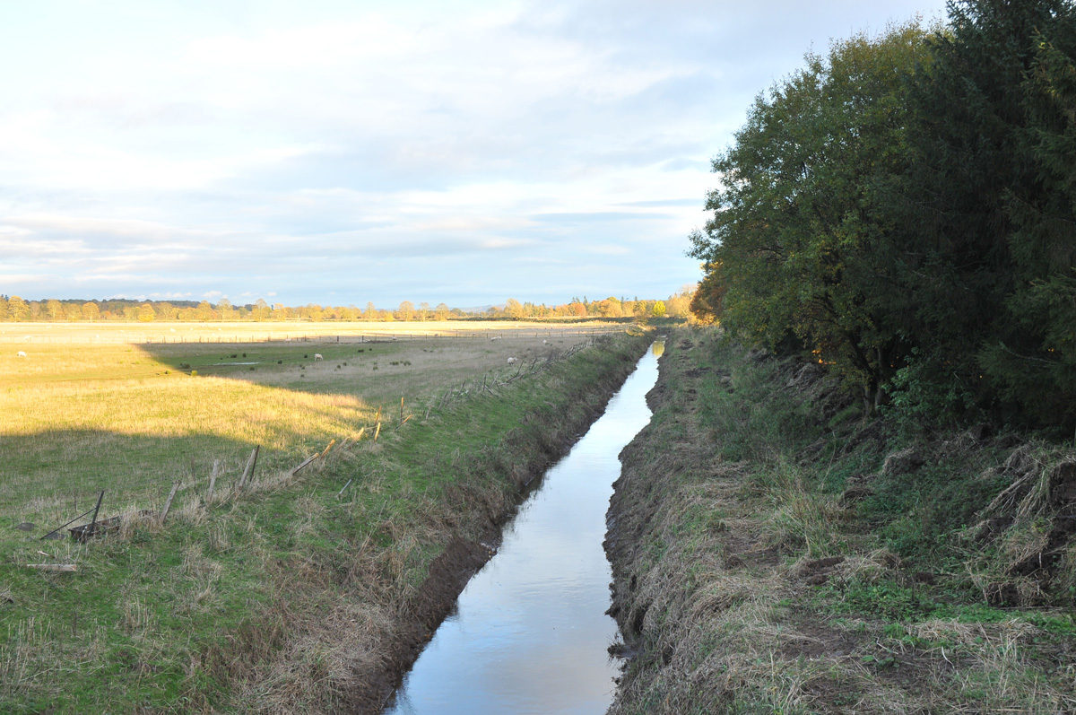 Pow Water viewed from Abbey Bridge